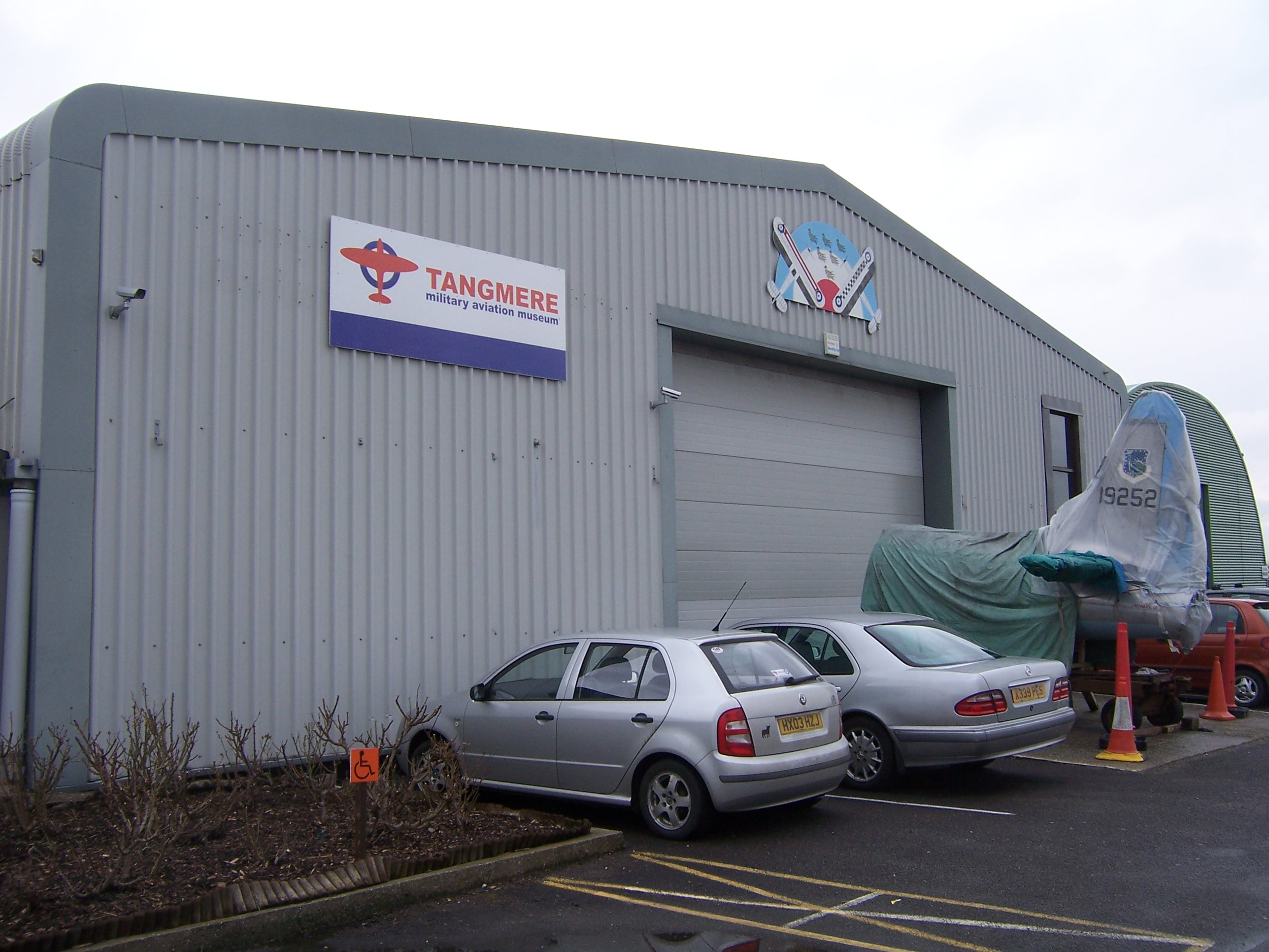 Military Aviation Museum-Tangmere Fairly small but very interesting aviation museum situated on the site of the famous wartime Battle of Britain fighter station. It has an excellent replica of the very first Spitfire prototype, and several other noteworthy aircraft. Also, a lot of wartime memorabilia.